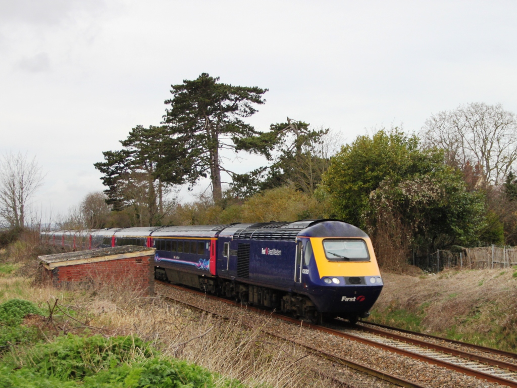 First Great Western's 43033 passes the site of Langport East station in Somerset with a train for London. The building on the left is the remains of the signal box.